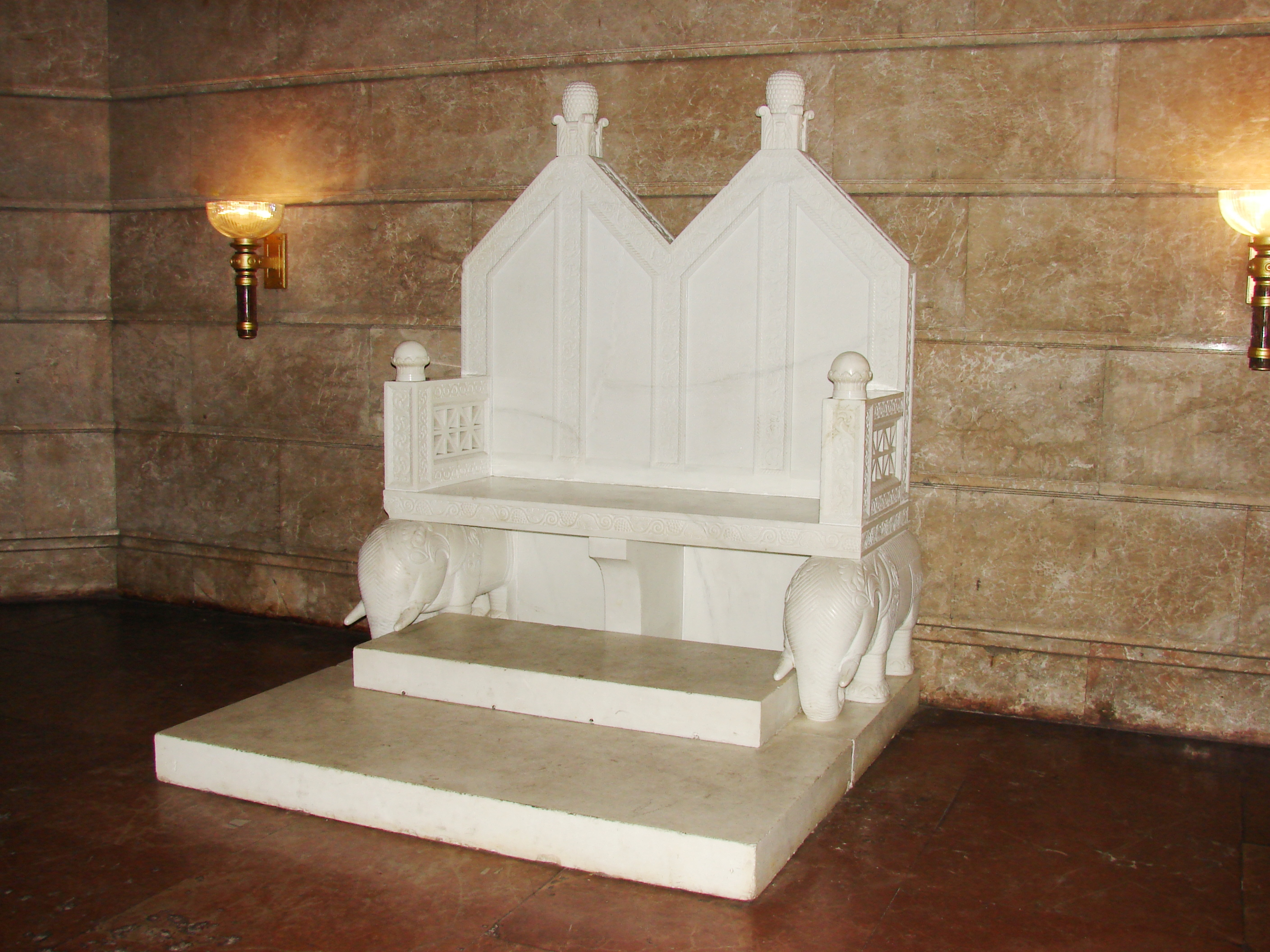 Throne of Wilhelm II in Poznań Imperial Castle